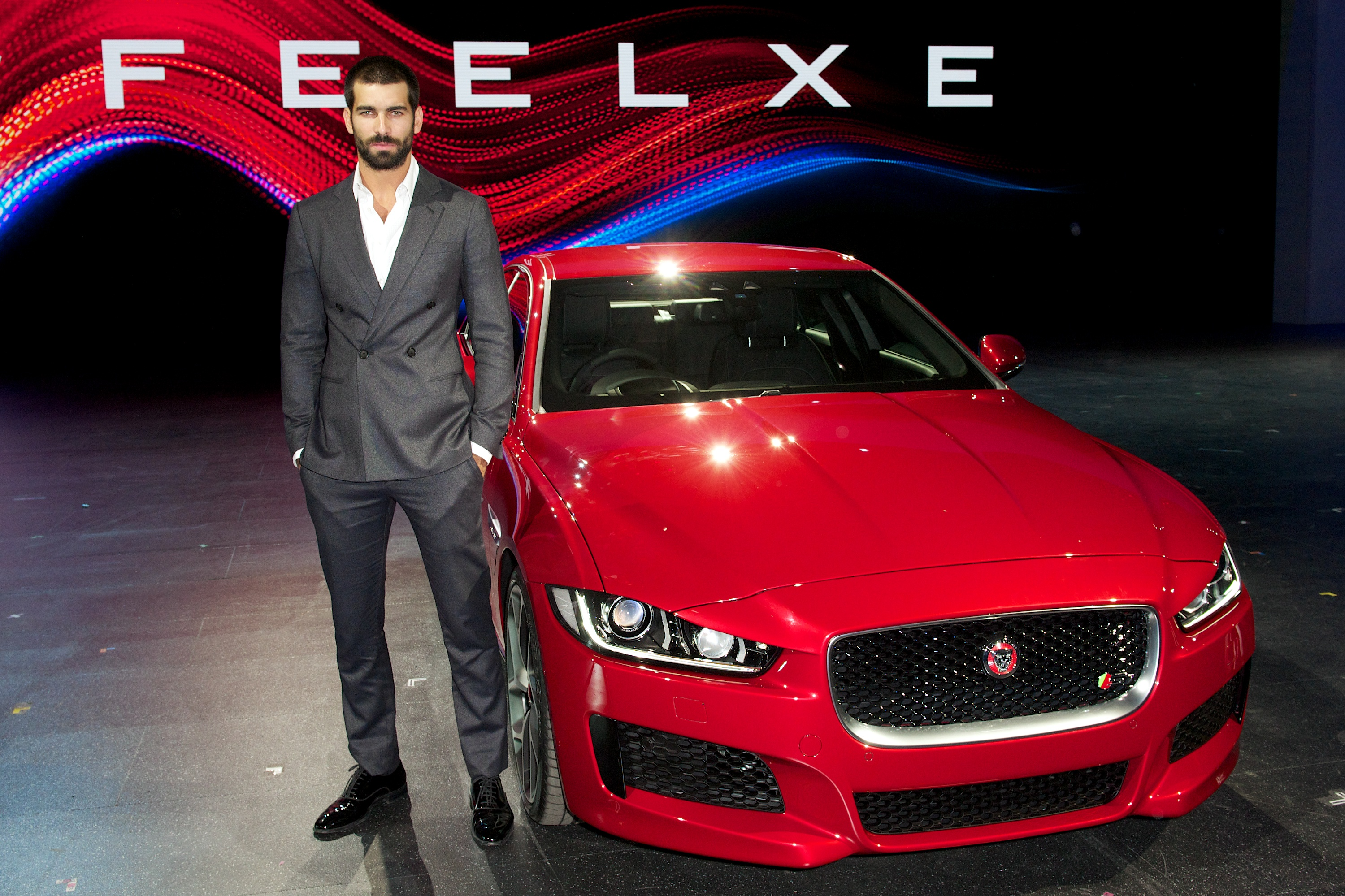 Ruben Cortada was a guest of Jaguar at the reveal of the new XE in London, Monday 8th September 2014.